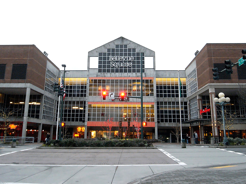 Bellevue Square entrance at NE 6th Street and Bellevue Way NE